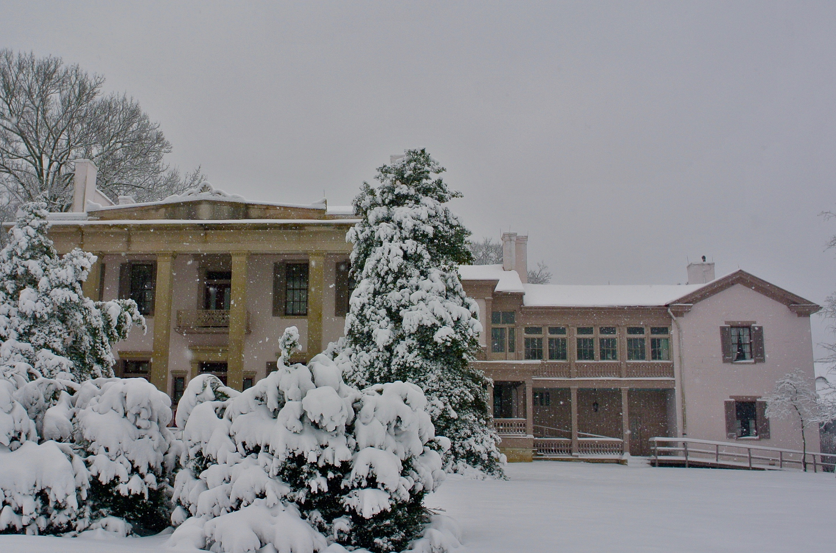 The Belle Meade Plantation during a snowstorm on January 22, 2016.